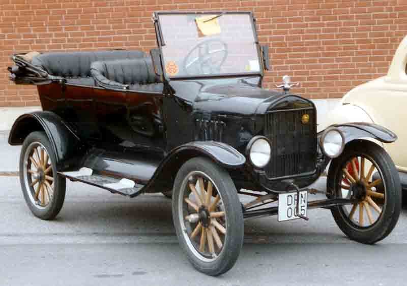 Ford Model T Touring 1923